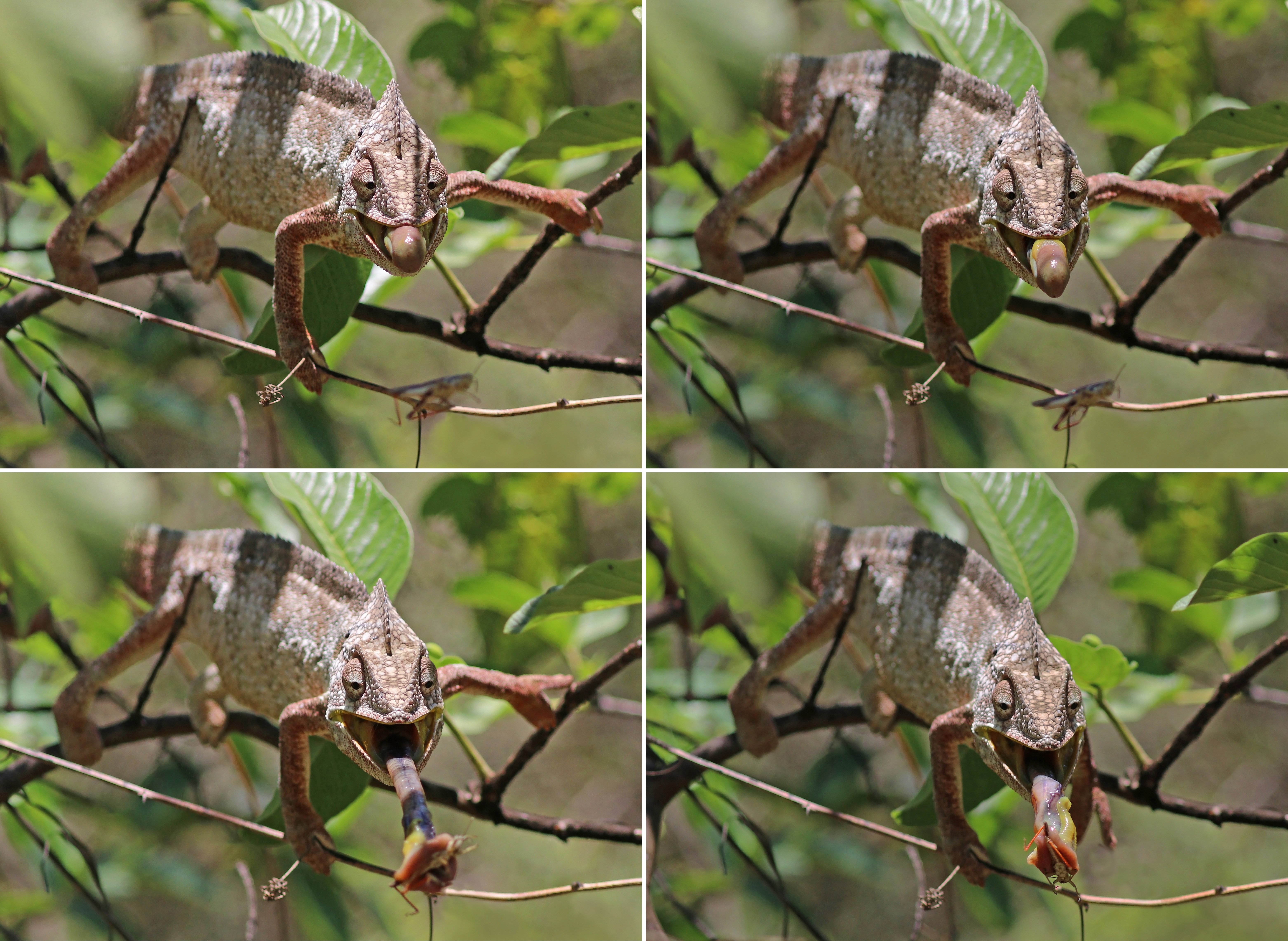 Oustalet's chameleon (Furcifer oustaleti) male feeding, Anja Community Reserve, Madagascar. Composite of 4 images.